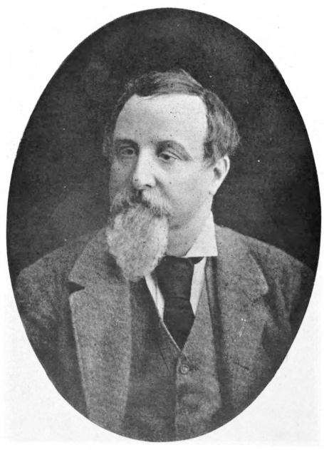 Portrait of the Irish-Occitan writer William Bonaparte-Wyse